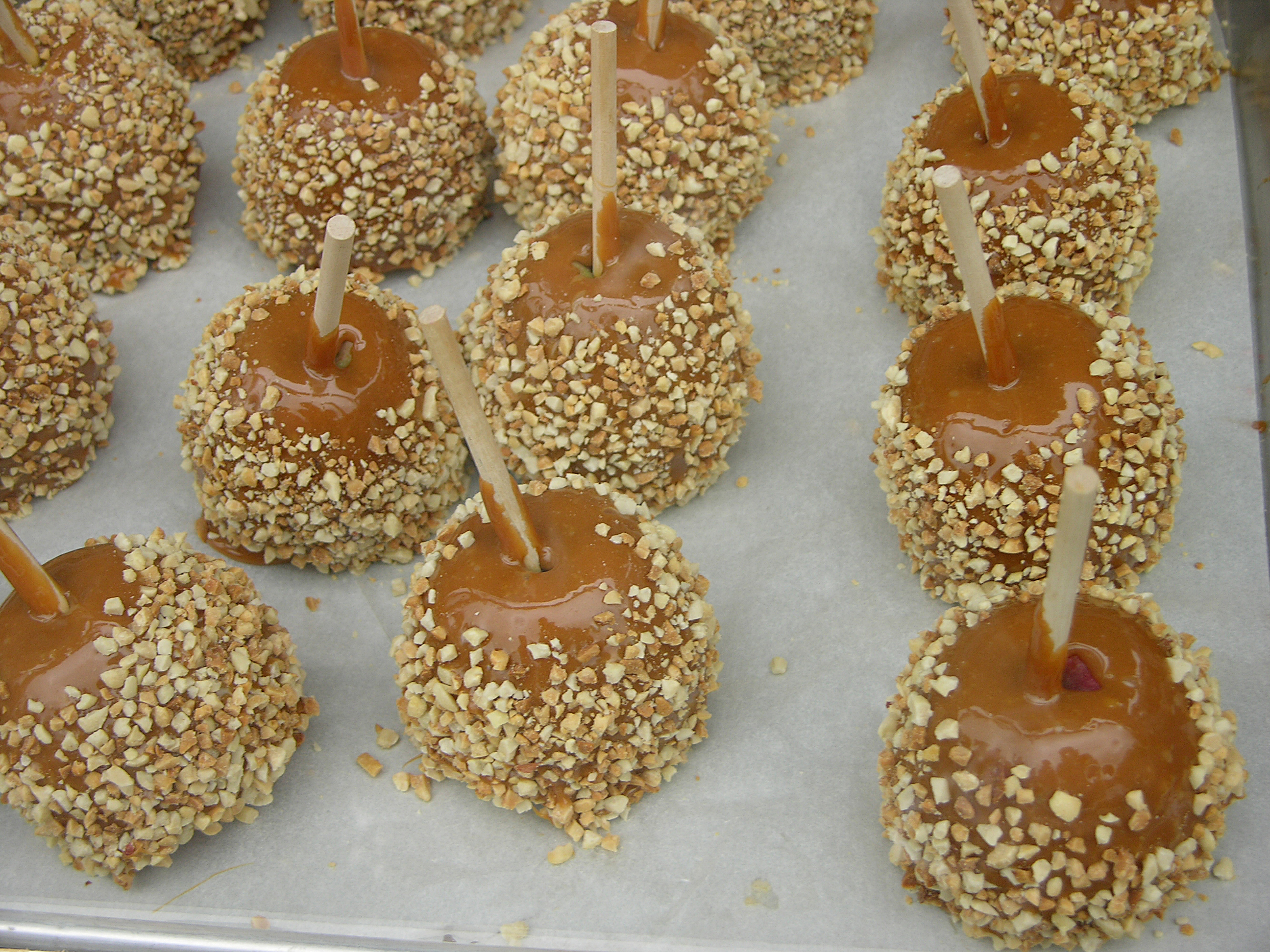 A photograph of a peanut and caramel coated Caramel apple.